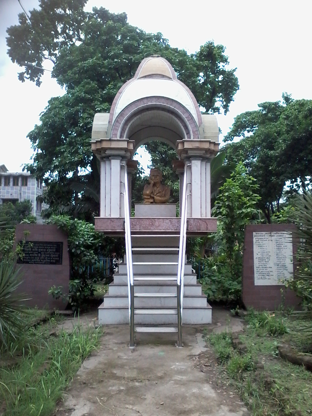 This is situated on the traffic island near Ichhapur, Howrah, West Bengal.